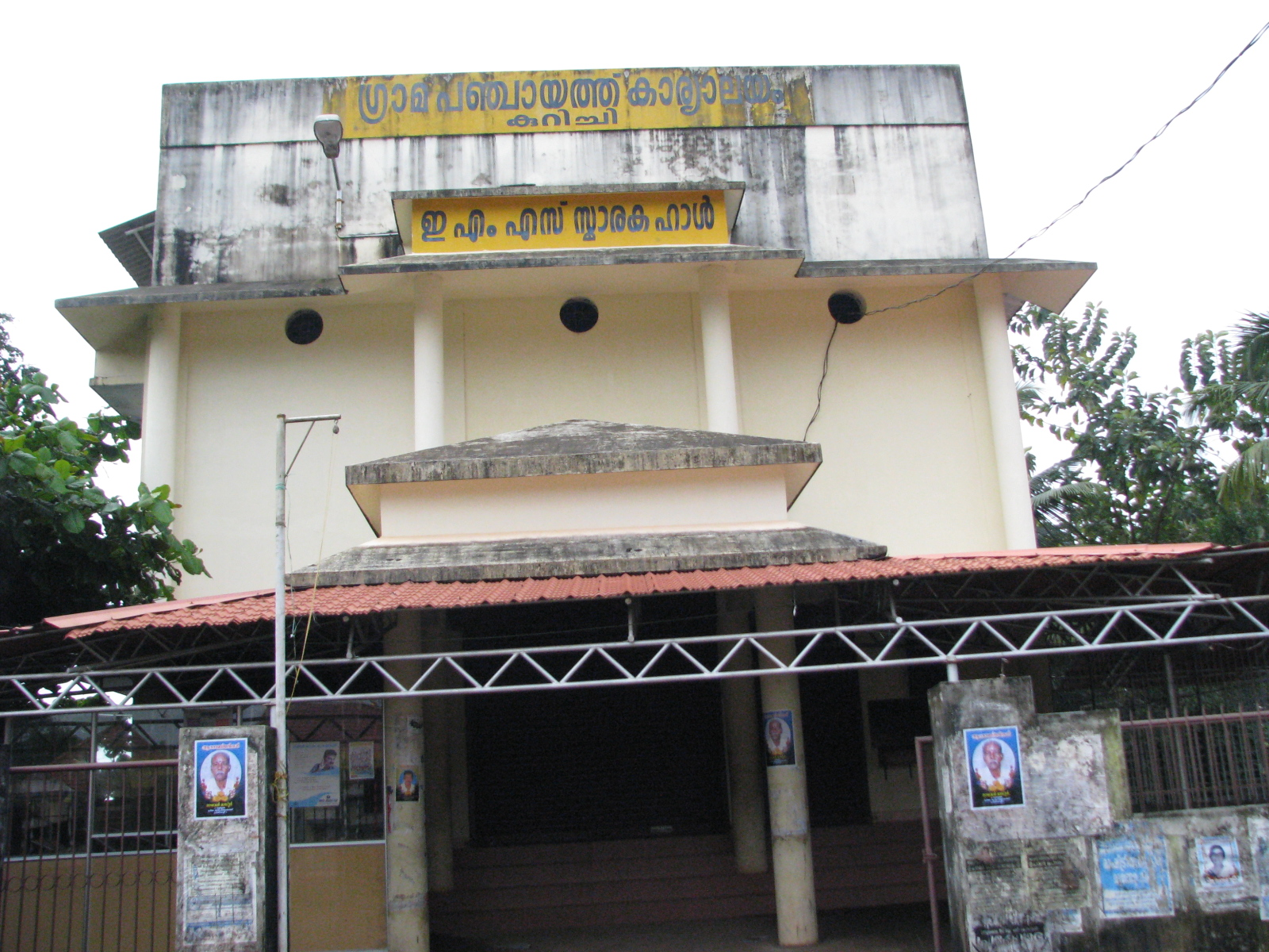 Kurichy gramapanchayat Office